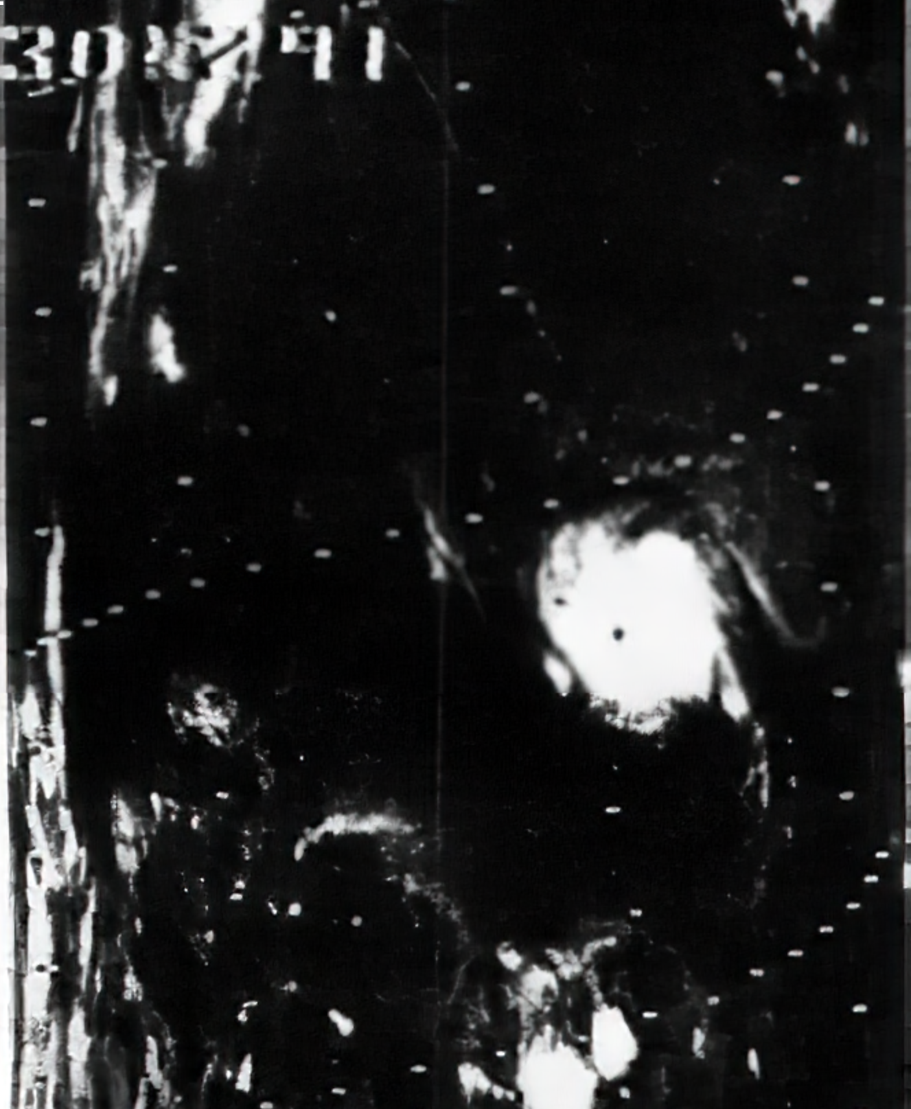 Nimbus 2 HRIR film strip (orbit 1822) on September 29, 1966 near 0400 GMT (near local midnight) over Hurricane Inez.